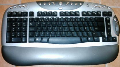 Keyboard